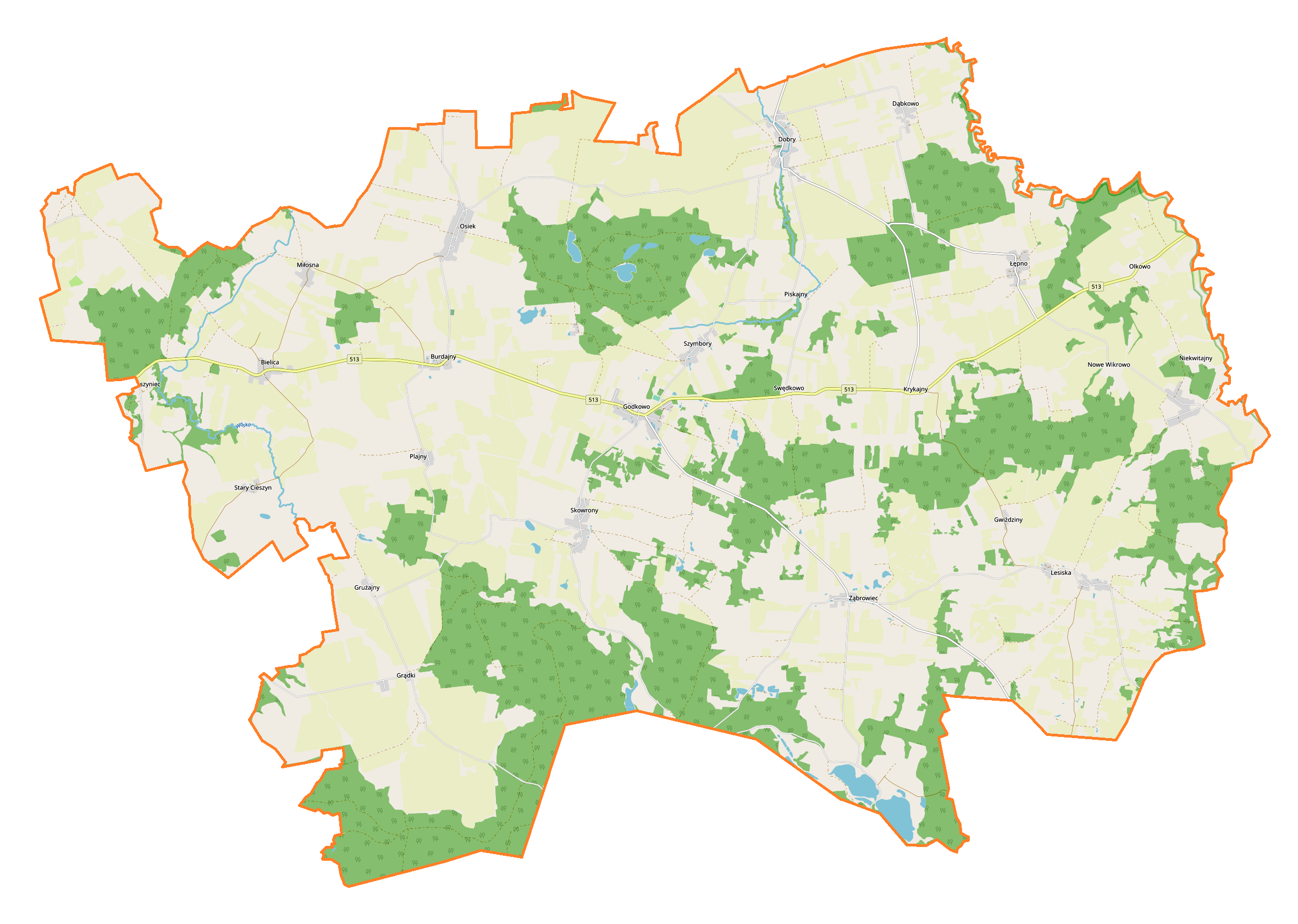 Location map